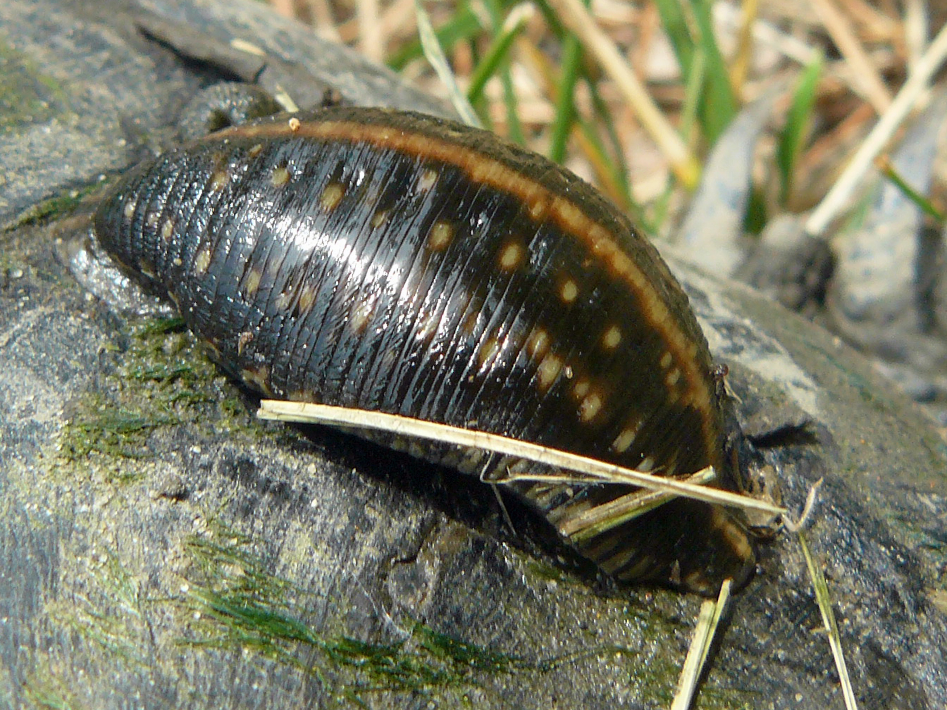 Don't know what species of leech, but it is one from this list.